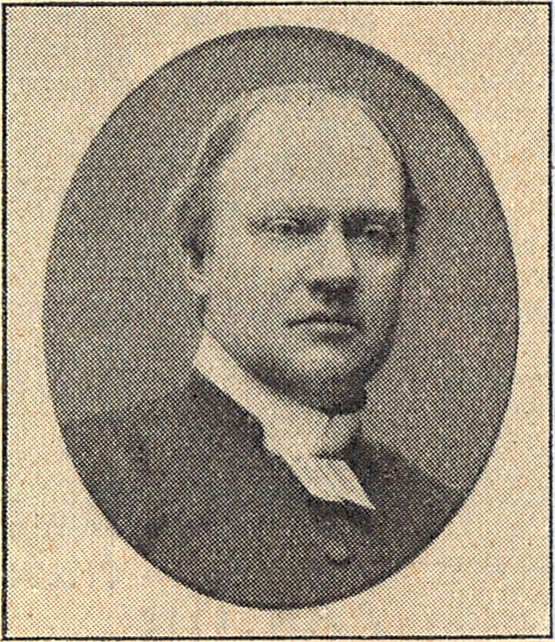 August Hammarström (1845-1912), Swedish historian, teacher and clergyman